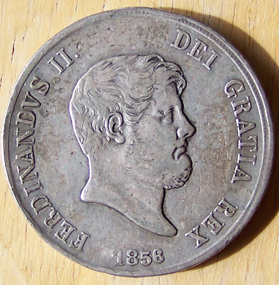 120 Grana coin of Ferdinand II of Naples and Sicily, 1856.